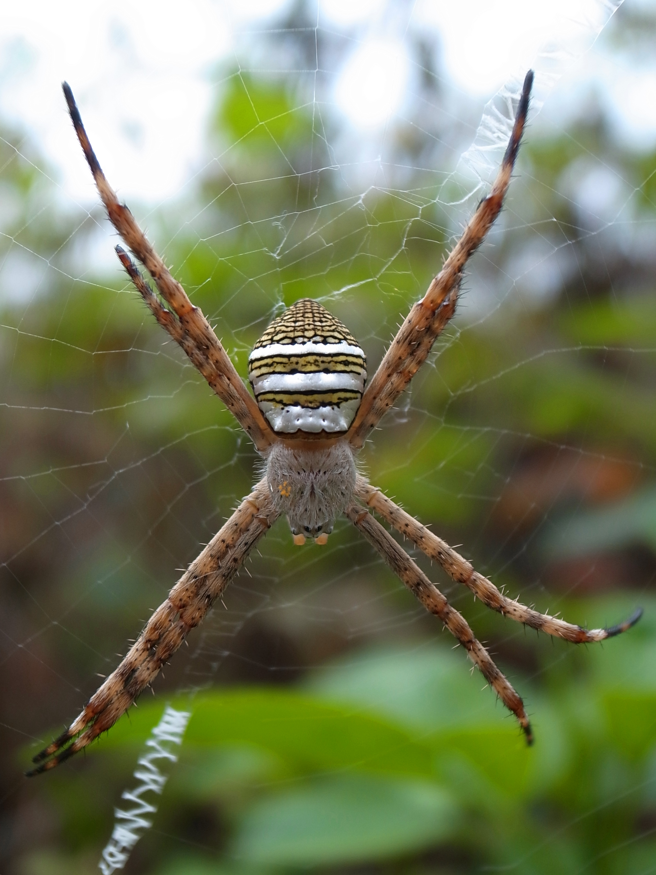 Dorsal view of adult female Argiope aemula. 中文（台灣）: 雌性成熟的長圓金蛛（Argiope aemula）背面。